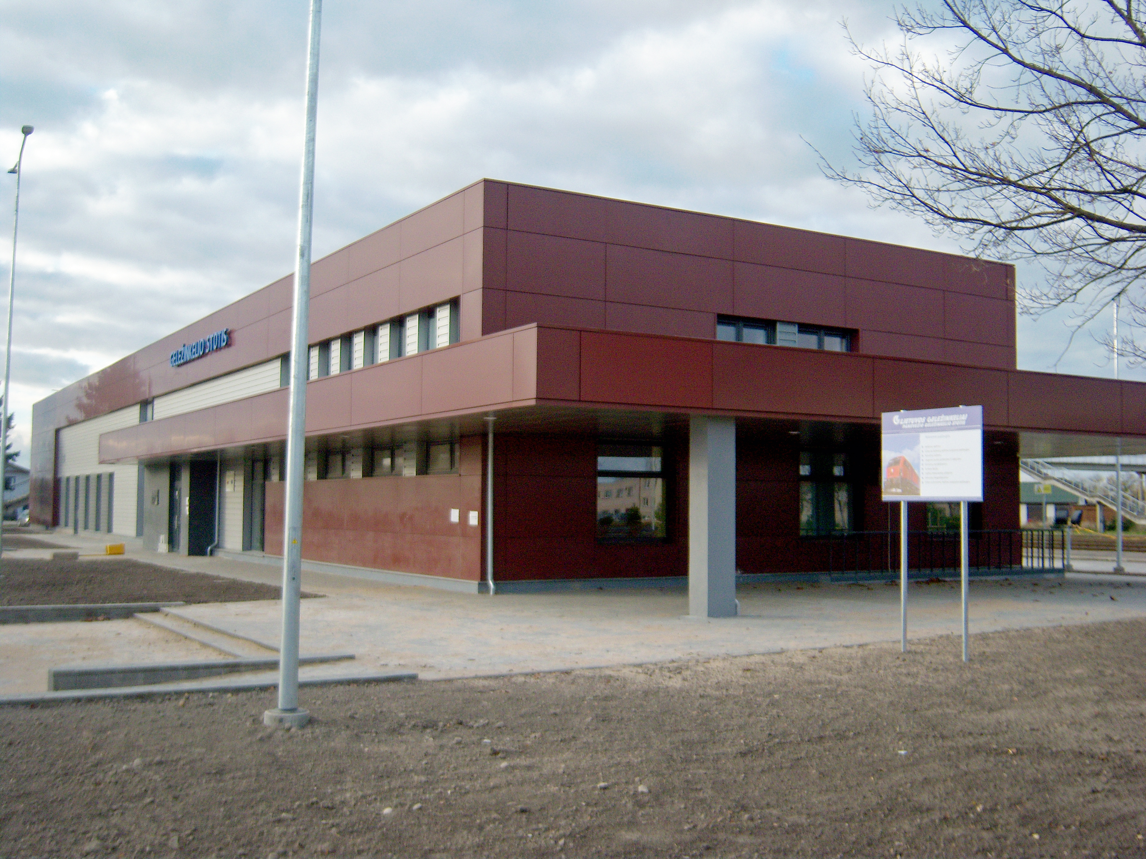 Railway station, Panevėžys, Lithuania